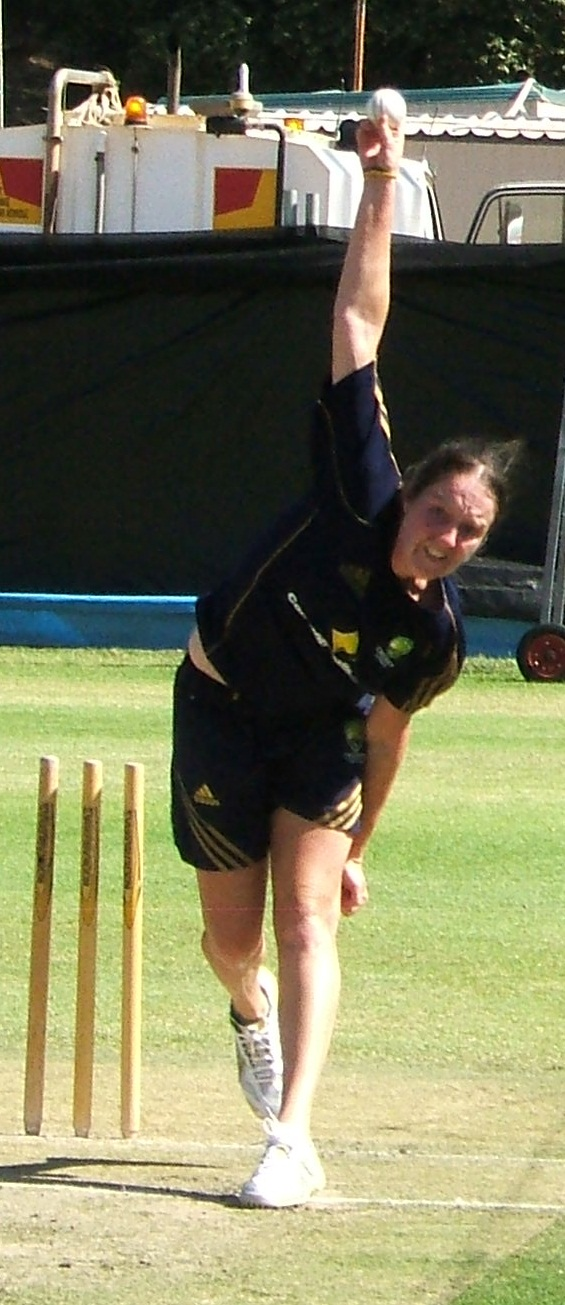 Named person engaging in named action at Adelaide Oval nets/training ground